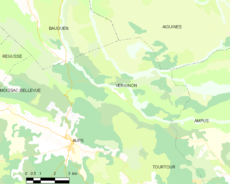 Map of French municipality Vérignon